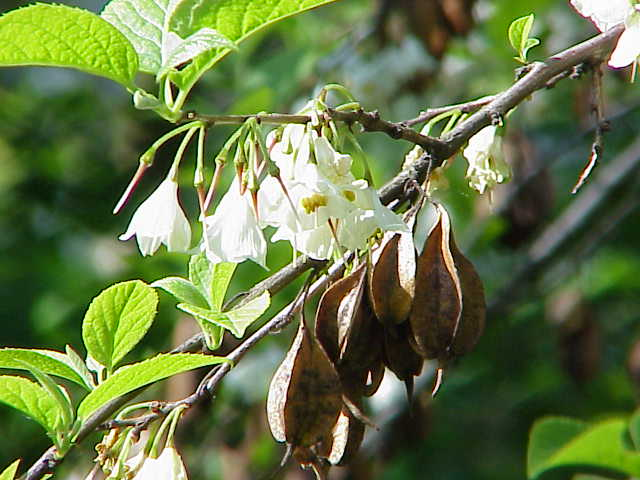 Species: Halesia carolina Family: Styracaceae Image No. 1